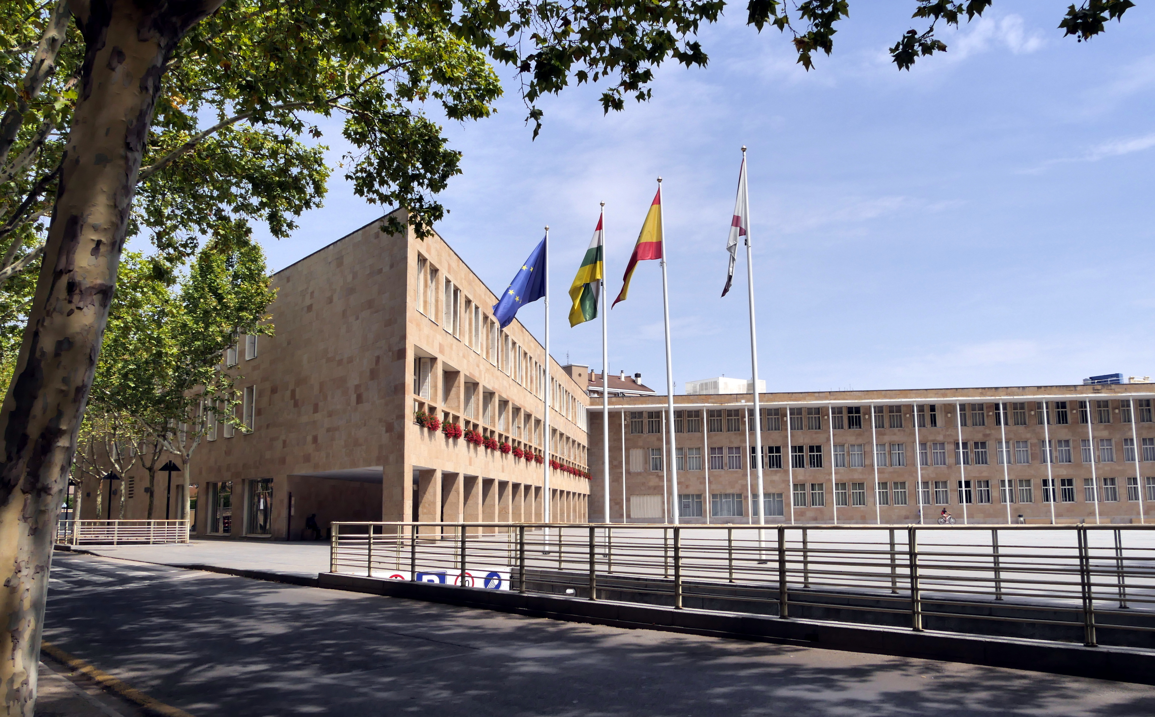 Town Hall of Logroño, Spain. Located at Square Plaza del Ayuntamiento.